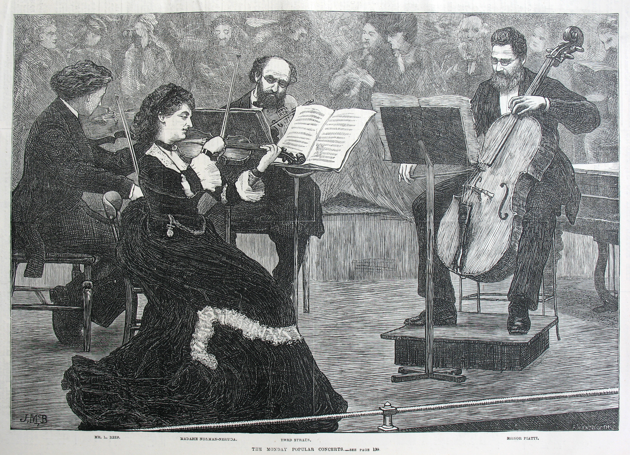 Wilma Norman-Neruda as a first violin of the string quartet at The Monday Popular Concerts in St James’s Hall, London; also pictured Louis Ries (violin 2), Ludwig Straus (viola) and Alfredo Piatti (cello).